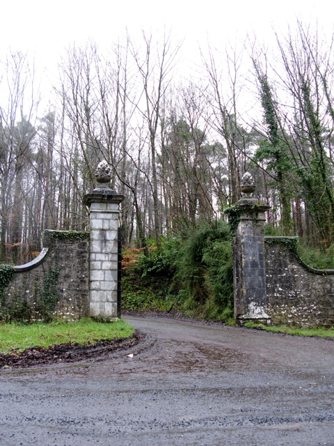 Entrance, Curragh Chase Forest Park, Co. Limerick An entrance to Curragh Chase Forest Park which contains the ruins of Curragh Chase House, the 18th century home of poet Aubrey deVere.